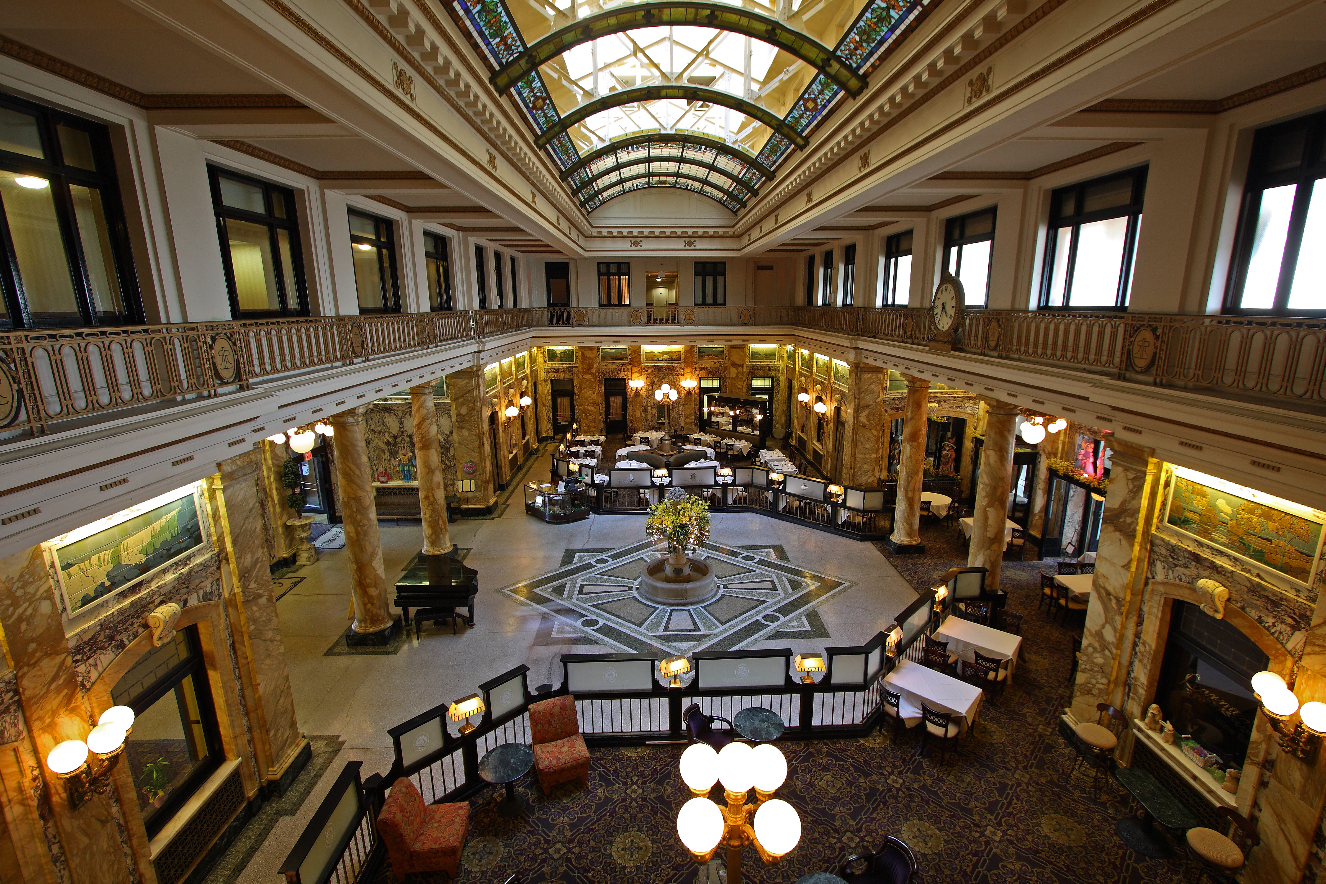 The lobby of the Radisson Lackawanna Station Hotel, at Scranton, Pennsylvania, United States. The decorations include glazed ceramic panels by the Grueby Faience Company.